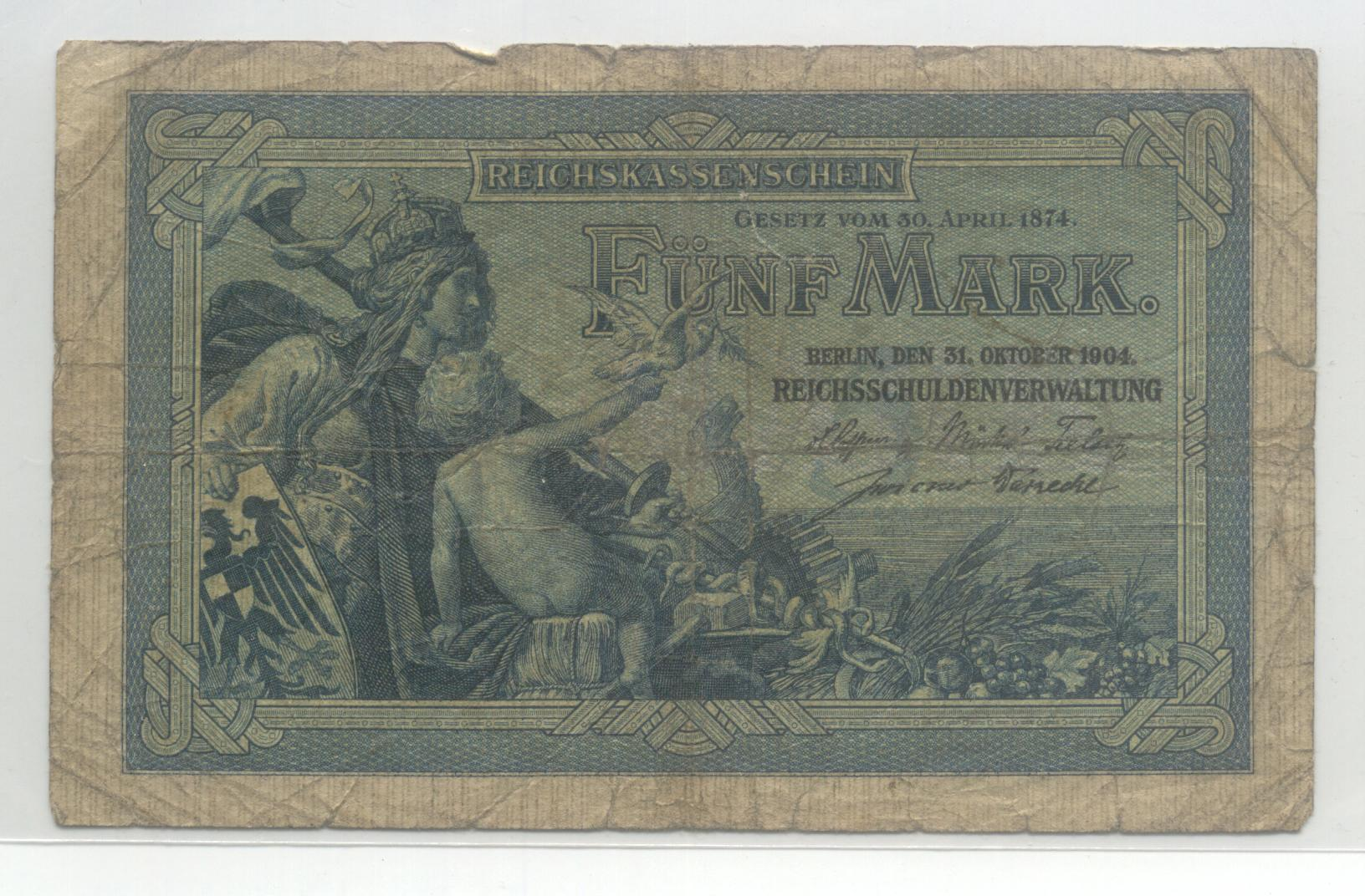 5 Mark